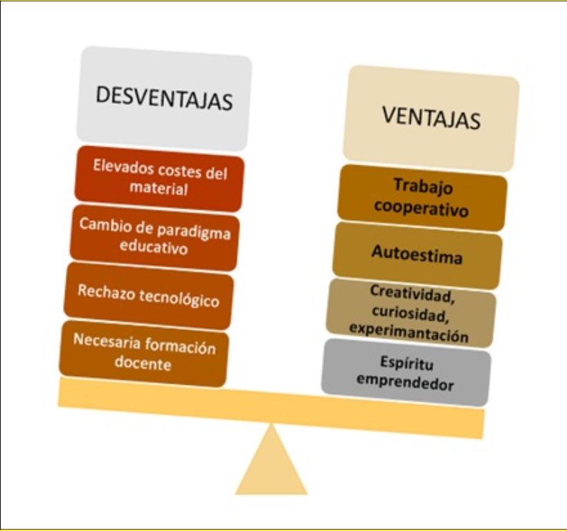 En esta infografía se muestra una balanza de las ventajas y desventajas de la robótica educativa.